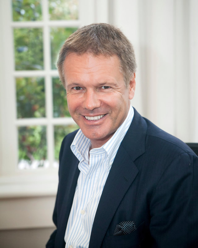 A picture of Rob Thielen